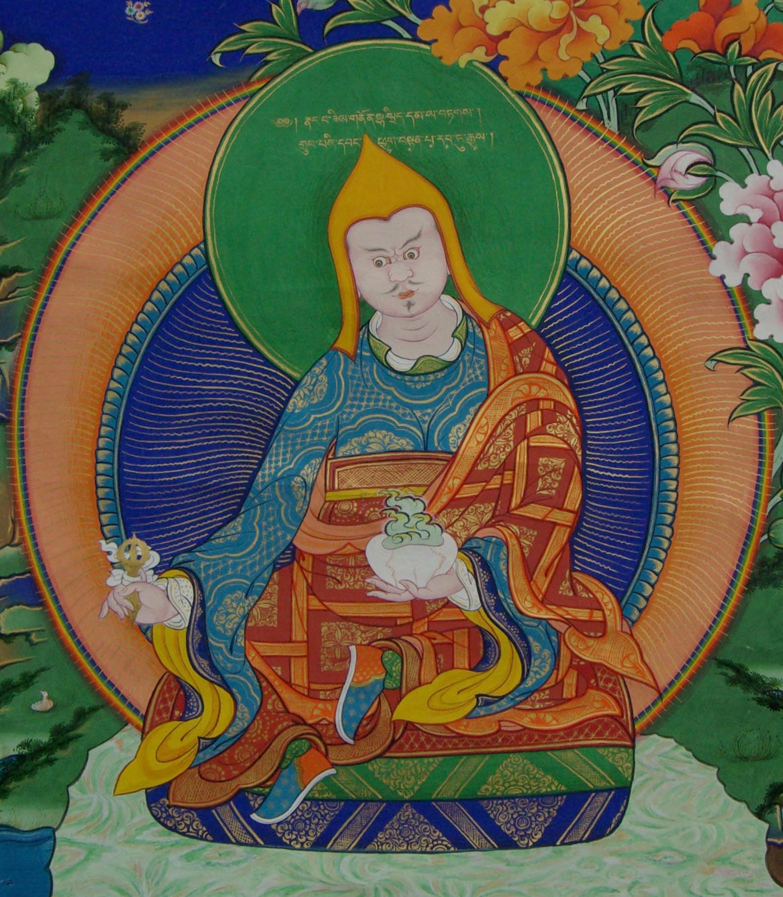 The Third Kirti, Tenpa Rabgye, b.1564 - d.1643